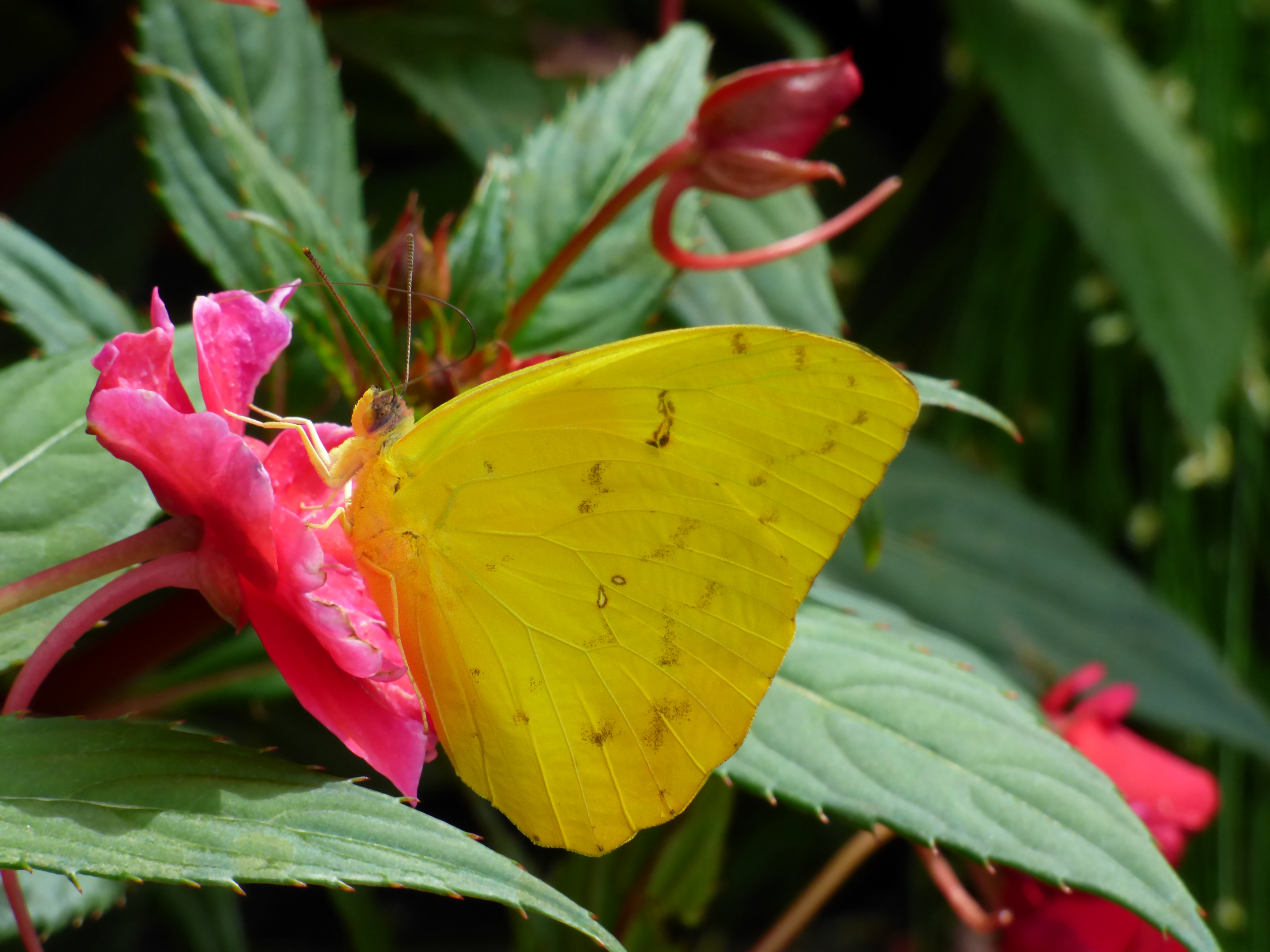 Phoebis philea male ventral - taken at Krohn Conservatory Butterfly Show.